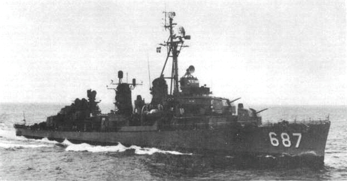 The U.S. Navy destroyer USS Uhlmann (DD-687) underway at sea, circa in the 1960s.